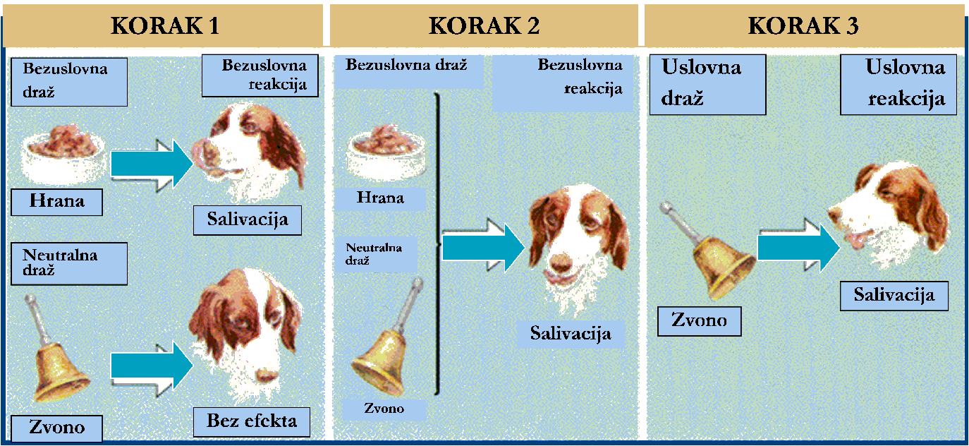 The course of classical conditioning.